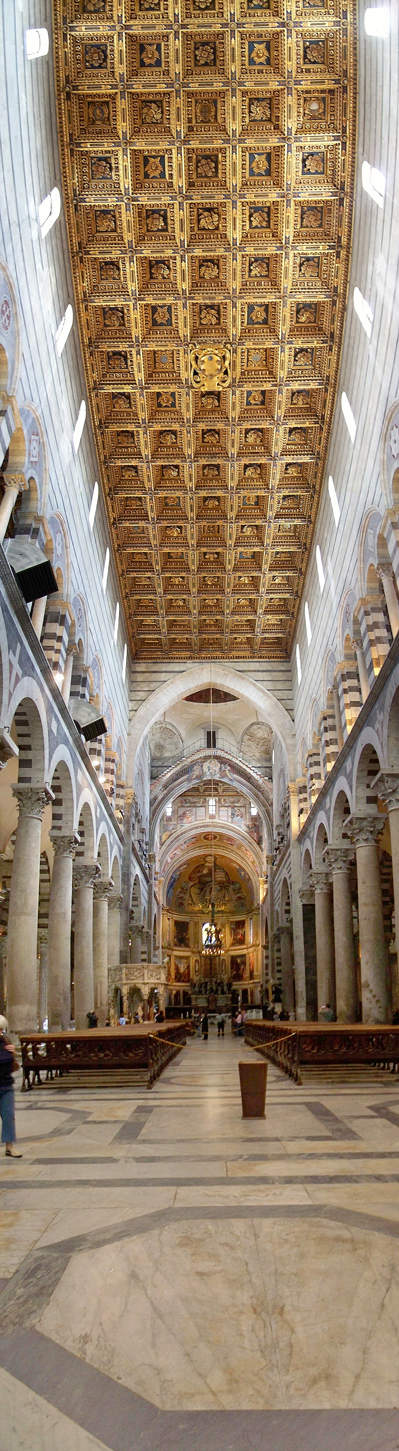 Interior view of the duomo of Pisa